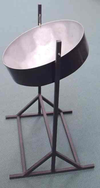 Treble pan from Tobago. Clearly described as a treble pan on the label, this register is more commonly called a soprano or tenor pan. This is an original photograph by Andrew Alder, taken on 22 June 2004.